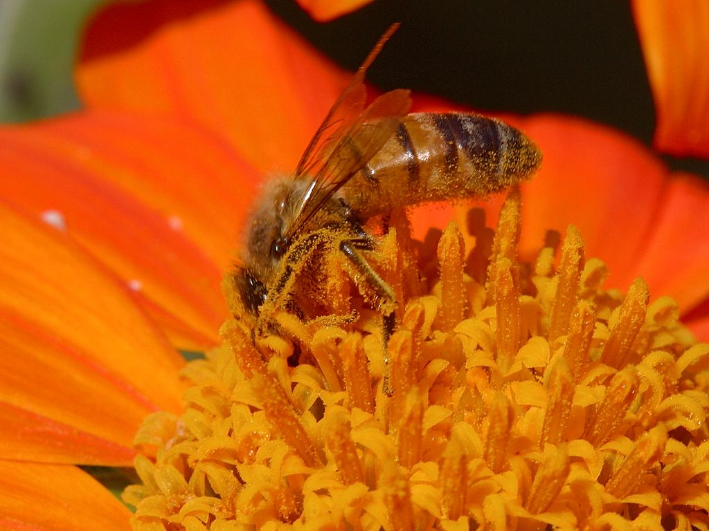 Bee-11